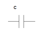 A lumped component capacitor